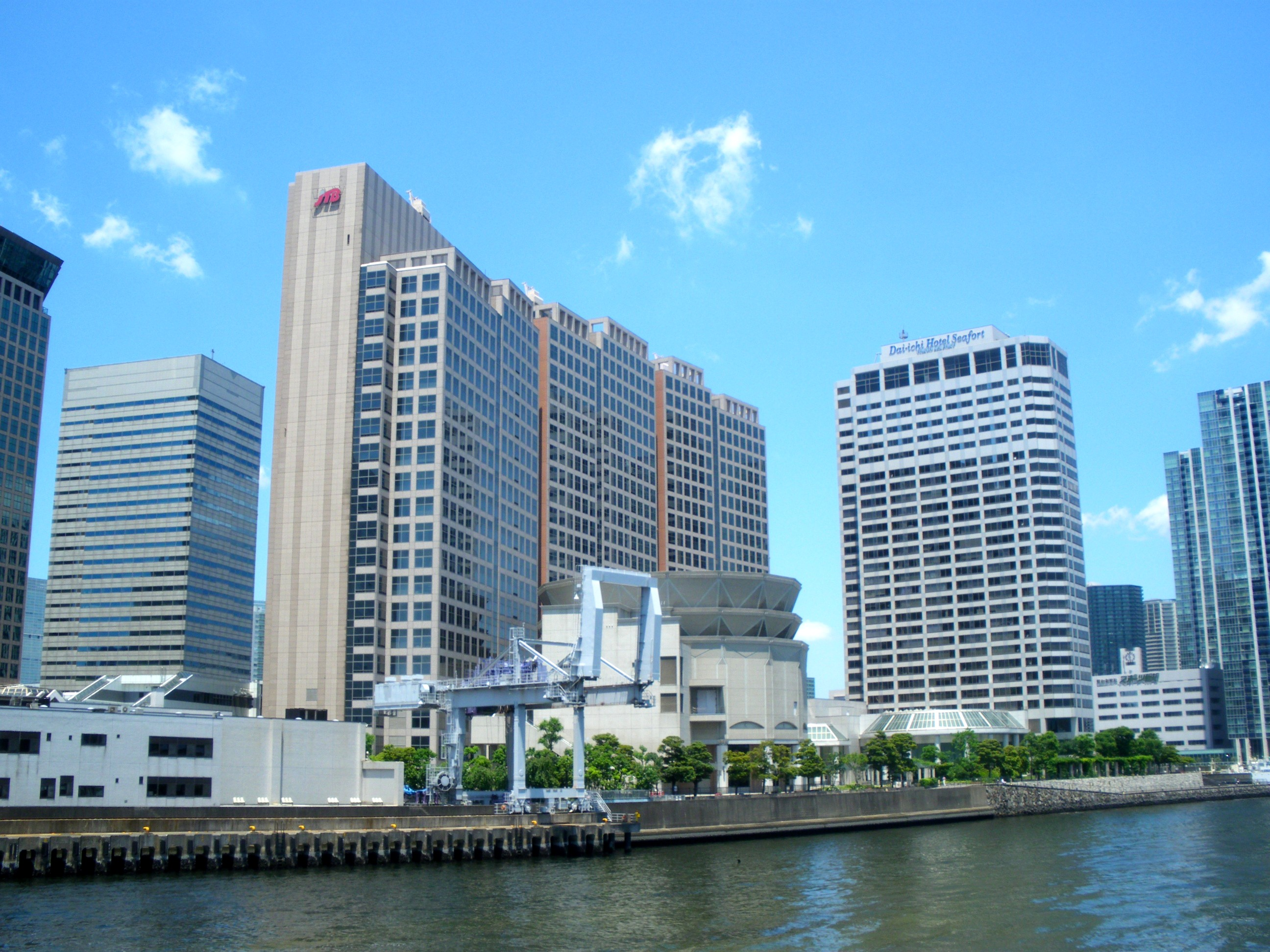 A photo of Seafort Square, Higashishinagawa, Shinagawa-ku, Tokyo, Japan.